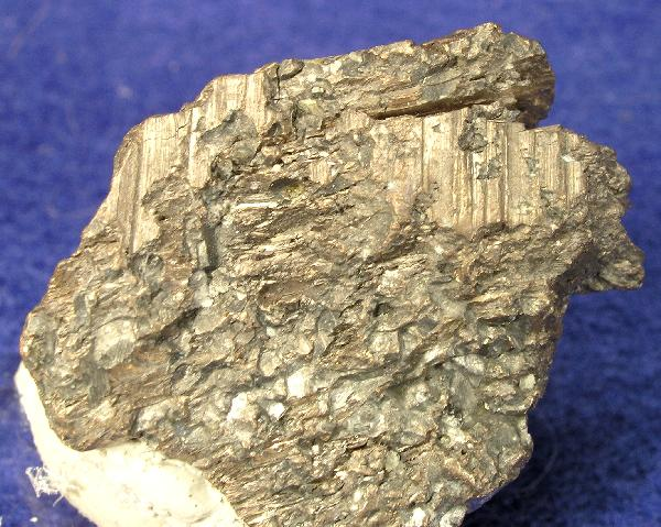 Bismuth Locality: Cobalt area, Cobalt-Gowganda region, Timiskaming District, Ontario, Canada (Locality at ) Size: miniature, 3.2 x 2.6 x .8 cm Bismuth A pair of striated, flattened Bismuth crystals along the edge of a plate of brassy-silver fine, layered Bismuth. The largest crystal is 2 cm in length, has good luster, and lovely striations. This is superb example of Bismuth crystallization for Canada, or anywhere outside of Germany for that matter. But for Canada, it is particularly rare and of sharp quality.